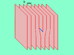 Simplified atomic plane diagram of an edge dislocation. (Burgers Vector in black, dislocation line in blue) Diagram by Wikityke